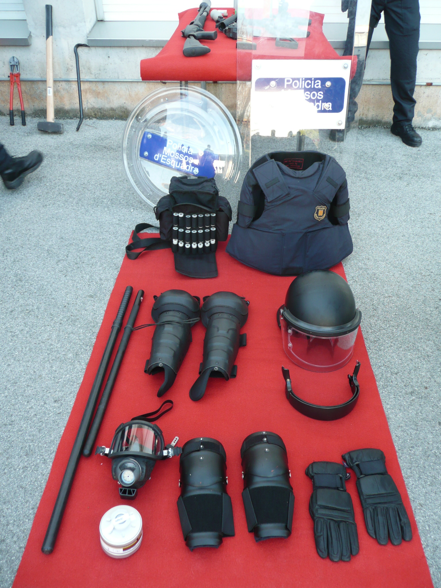 Equipment of a single mosso of Mobile Brigade, primarily defensive objects to avoid injuries.